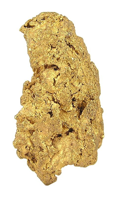 Gold Locality: Serra Pelada (Serra Leste) Au-(Pd-Pt) deposit, Curionópolis, Carajás mineral province, Pará, North Region, Brazil (Locality at ) A large and important nugget for the locality! Gold nuggets from Brazil are quite hard to obtain. This one shows minute crysatllization in the pockets, as well. 4.3 x 2.3 x 1.2 cm (39 grams)